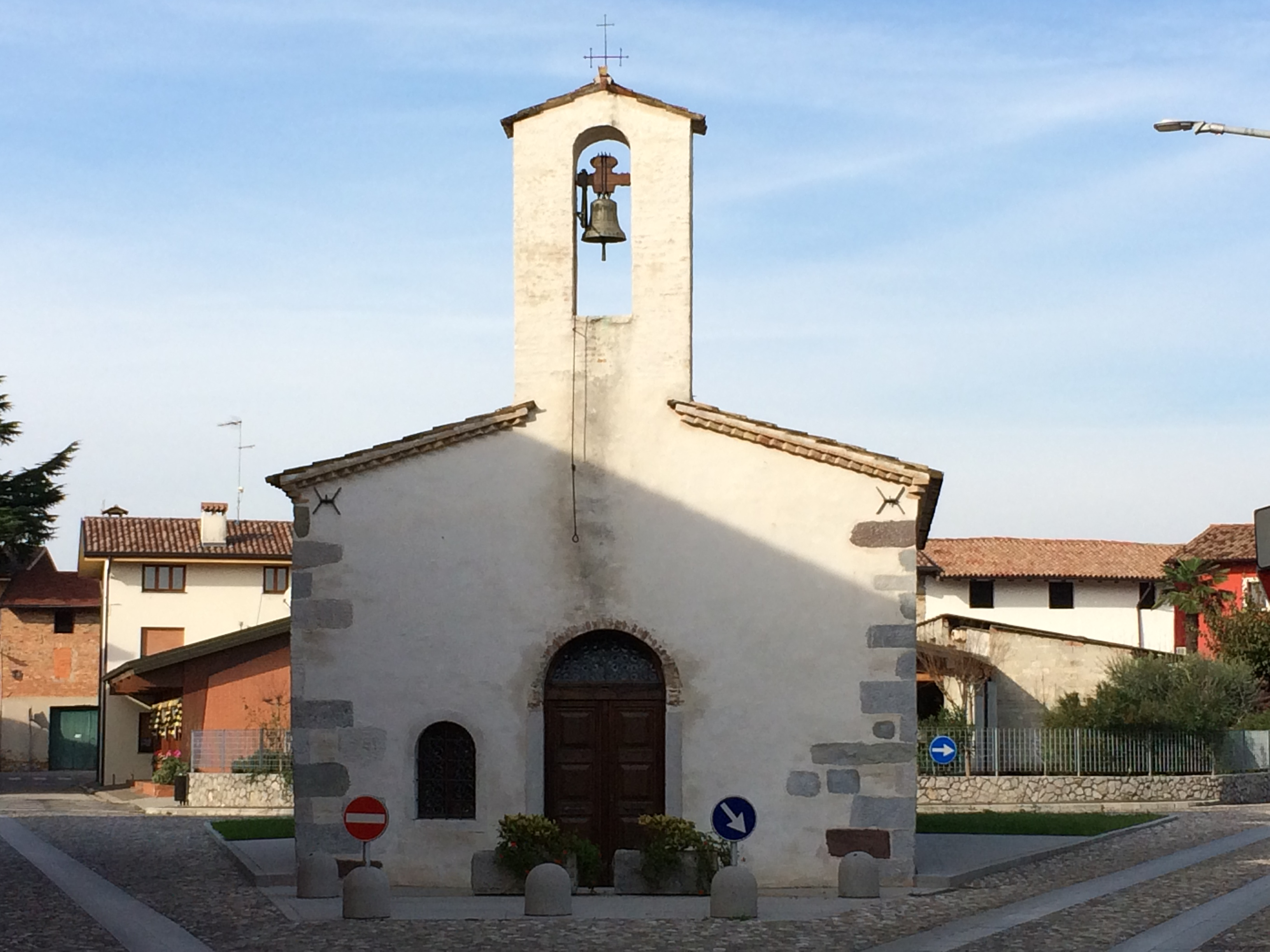 Coseano